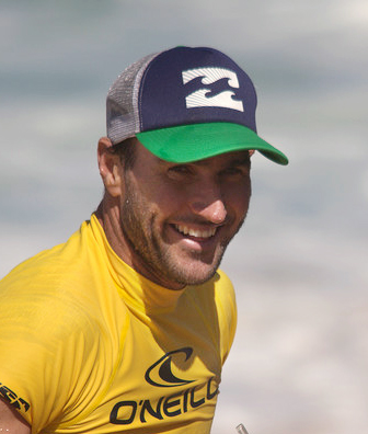 Joel Parkinson after a surf contest heat.